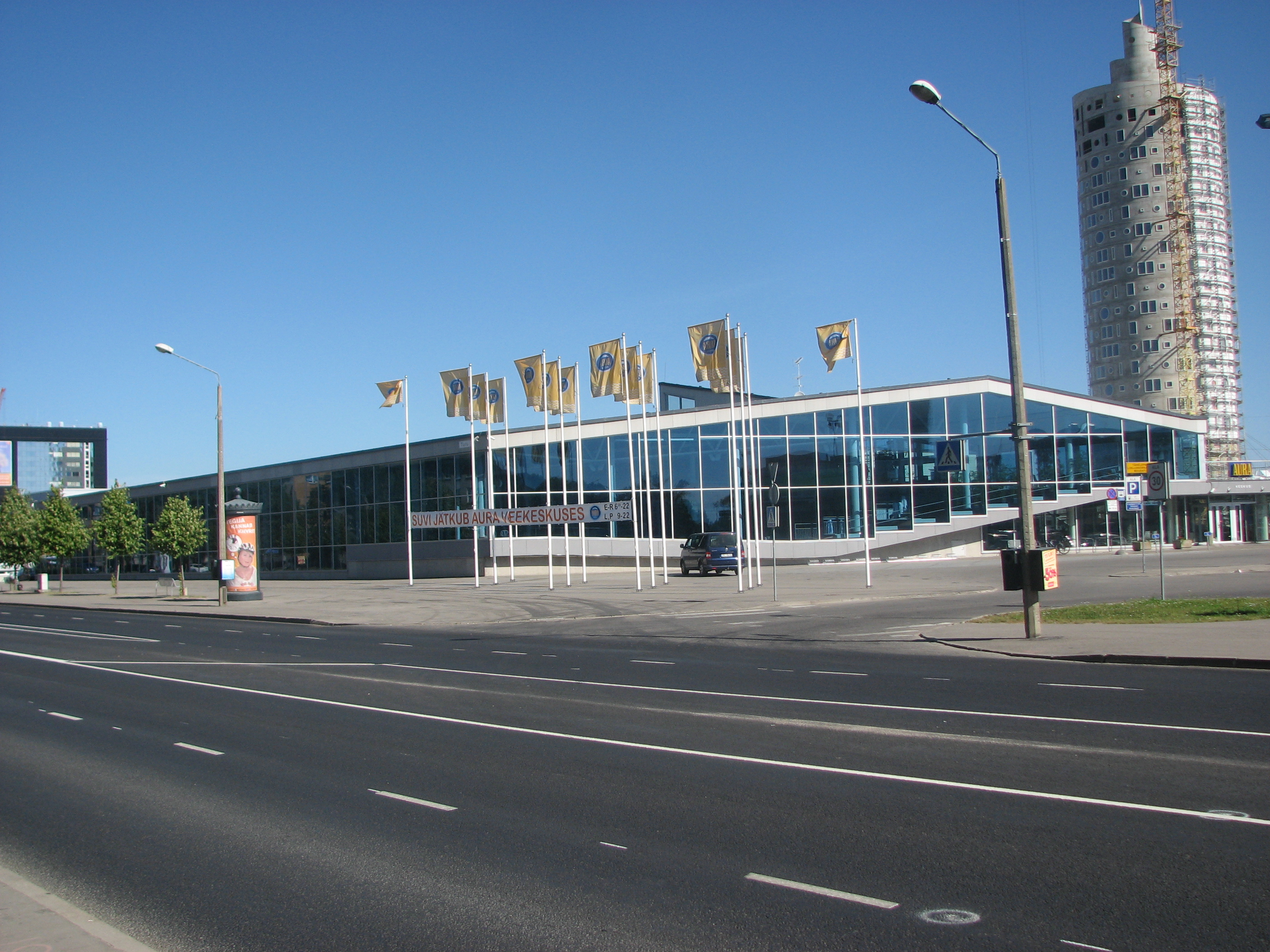 Pool, water park, health club, saunas, light therapy centre in Tartu, Estonia. 2007